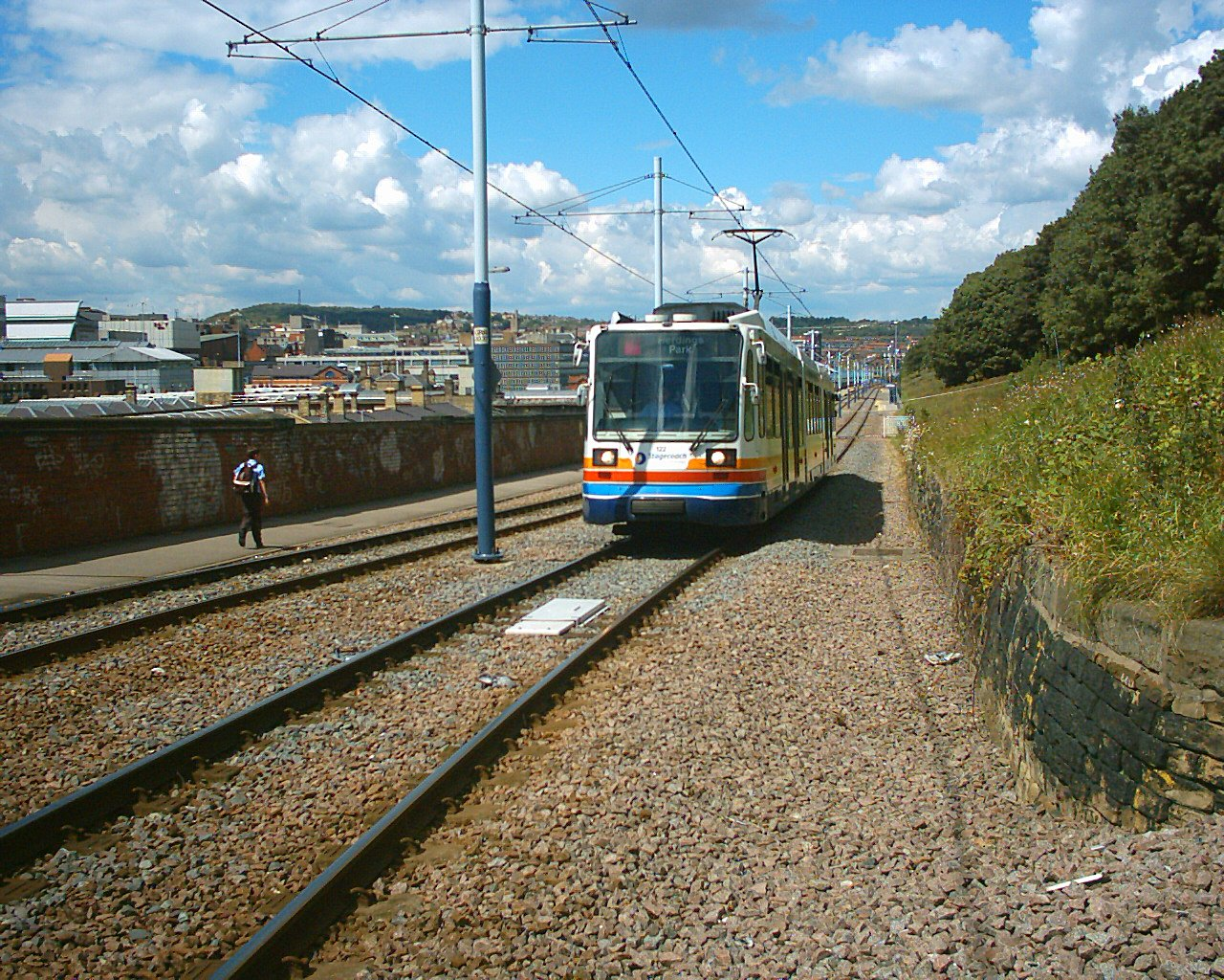 Sheffield Supetram on Sheffield's Granville Street.